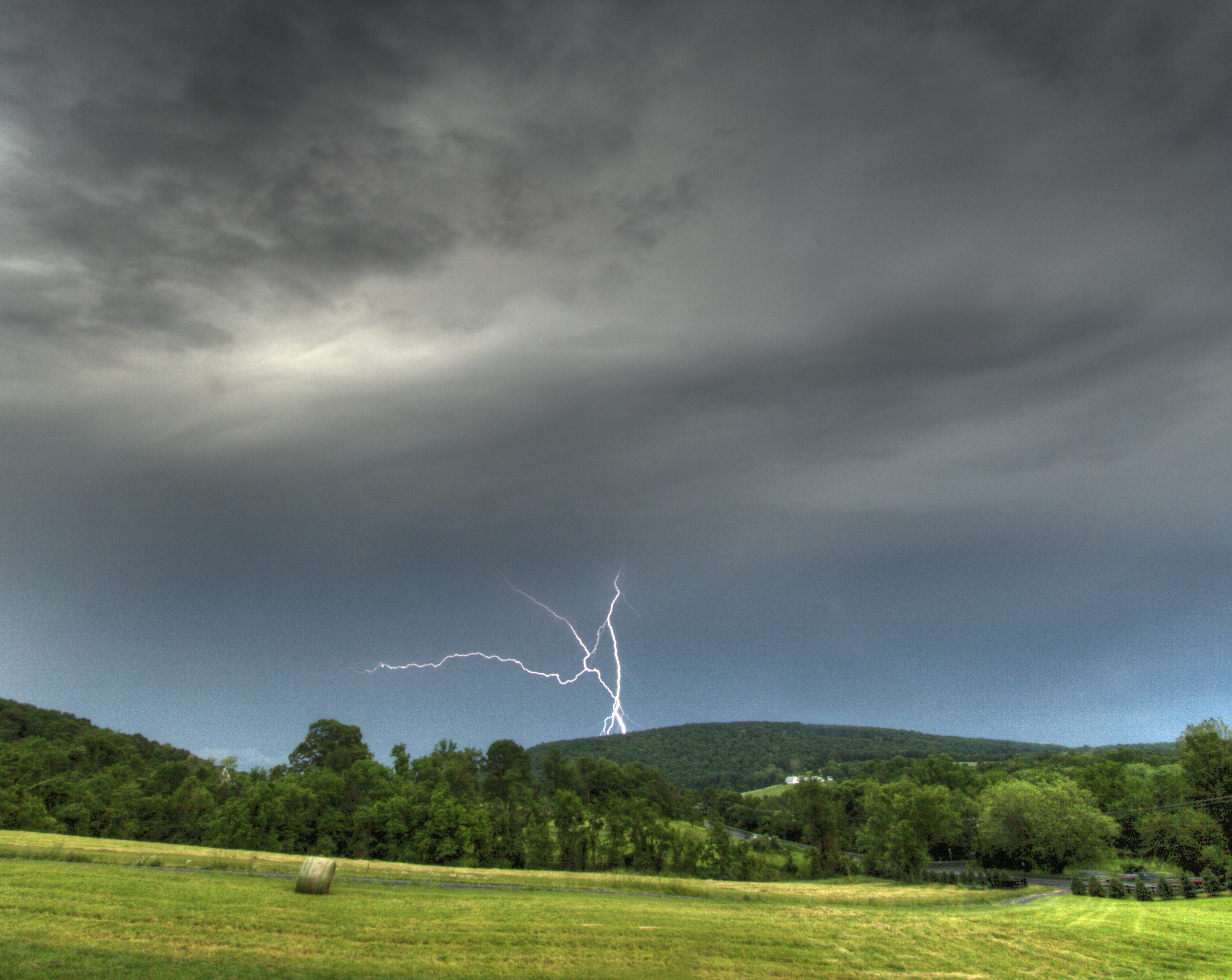 Another day, another lightning storm. This was the second storm of the day; the first broke one of our trees in two and killed a motorist in Annandale. Once again, pseudo-HDR combined with a simulated GND filter effect, on each of two exposures (each one captured different individual strokes of the same lightning discharge), combined in PSE.